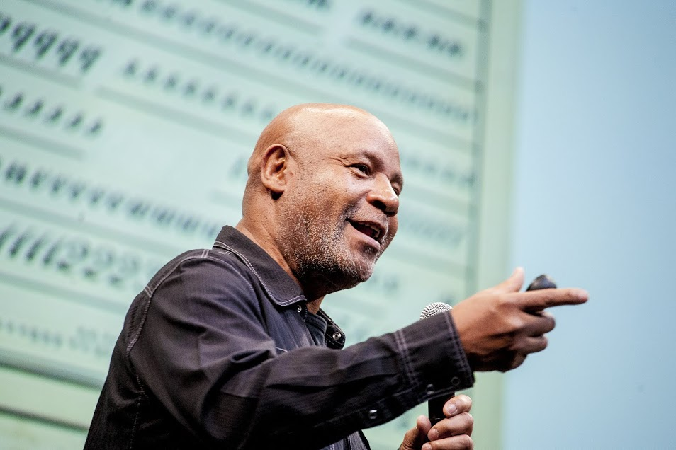 Emory Douglas speaking at Typo San Fransisco 2014